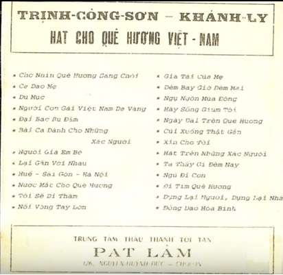 The cover of Hát Cho Quê Hương Việt Nam album